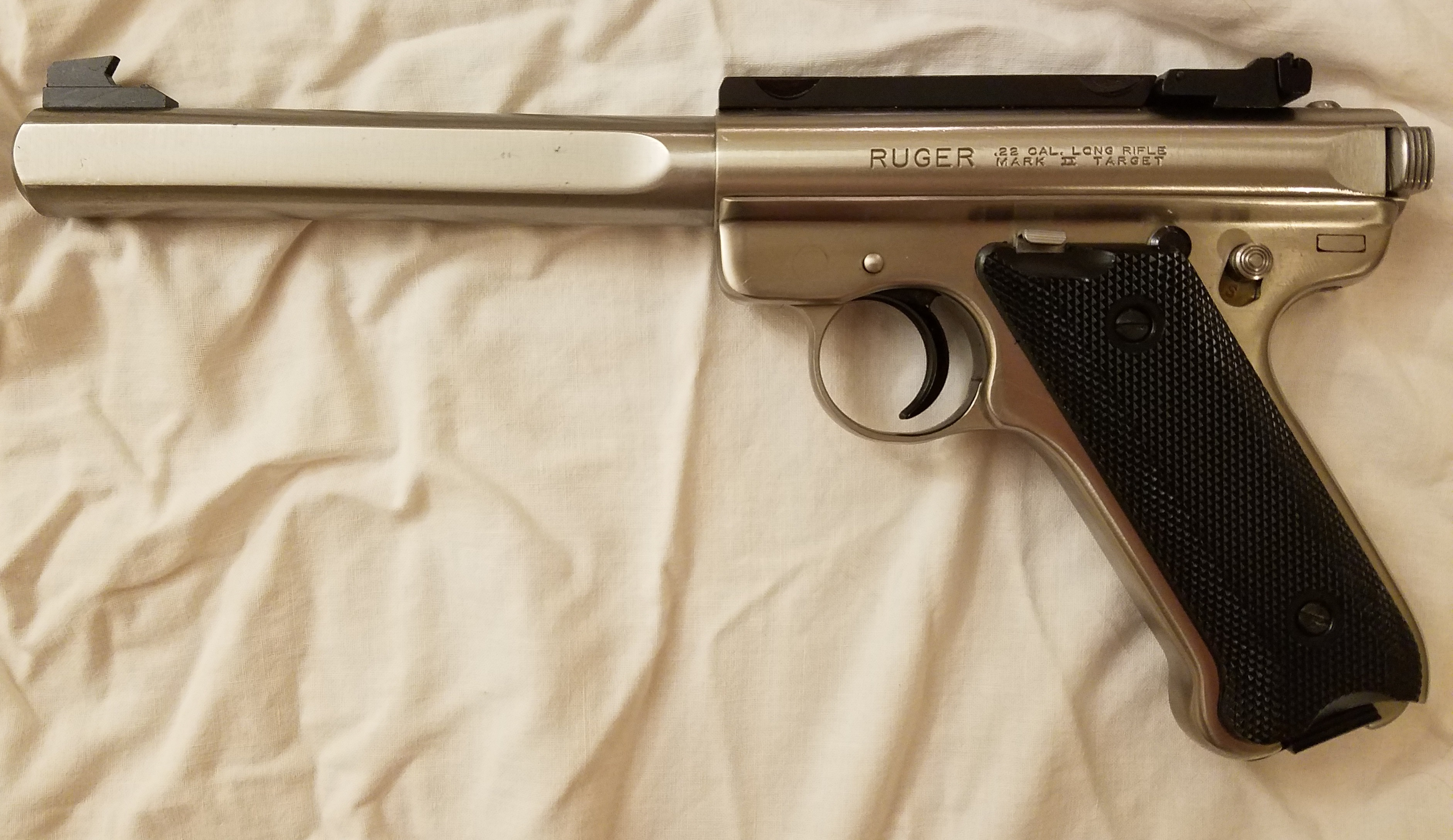 Ruger Mark II Target pistol, .22 LR